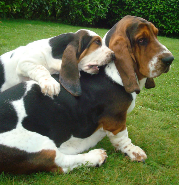 Constable MacArthur de la Clé du Verne ( 16 months )said Grussgott with his young cousin Dom-Tom MacDouglas du clos dominant ( 3 months )...